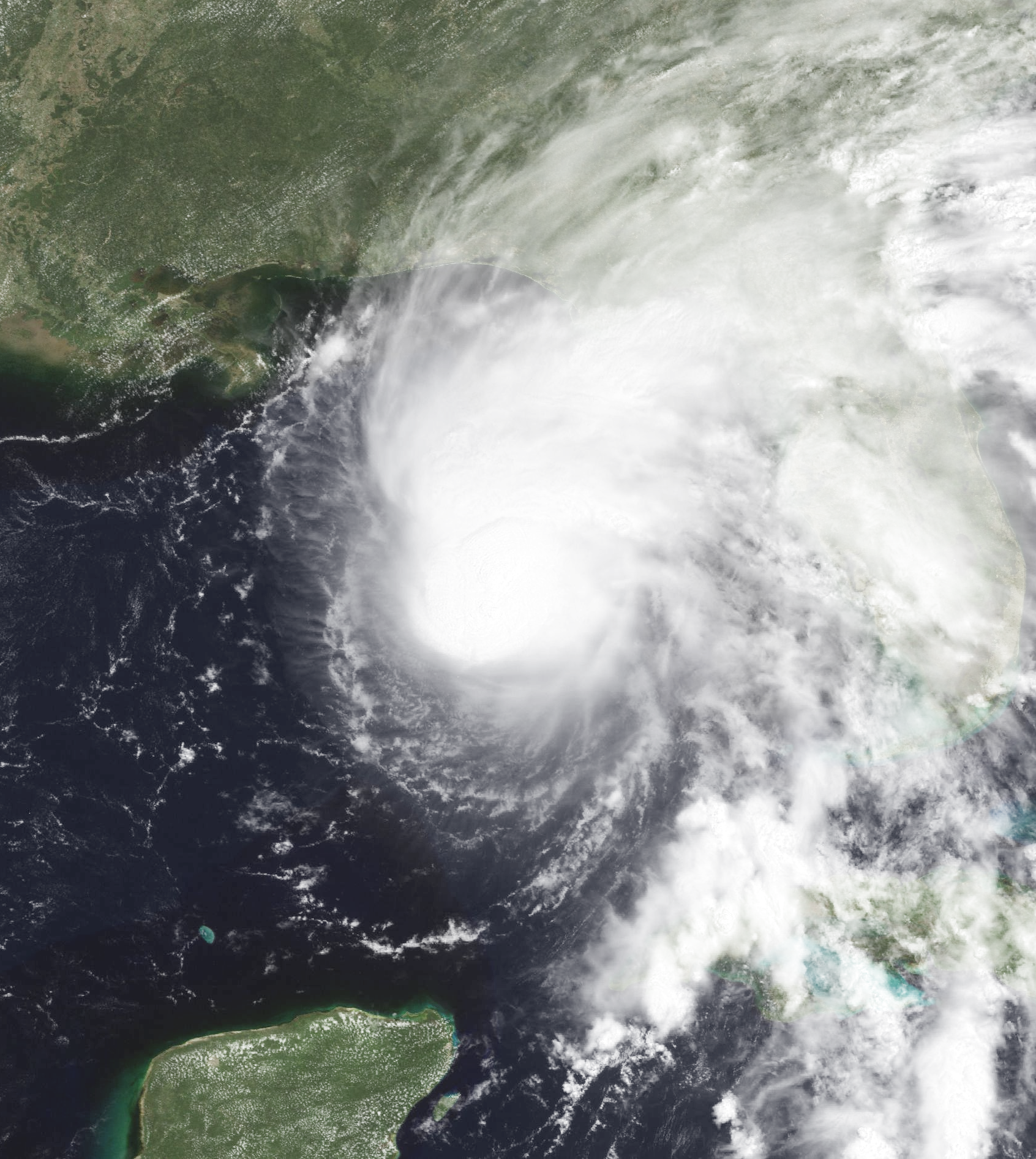 Hurricane Allison at peak intensity in the Gulf of Mexico on June 4, 1995